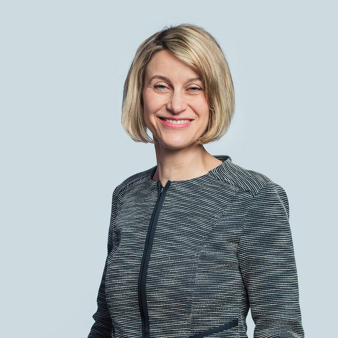 Sunhild Kleingaertnern is Managing Director of the German Maritime Museum Leibniz Institute for Maritime History in Bremerhaven.